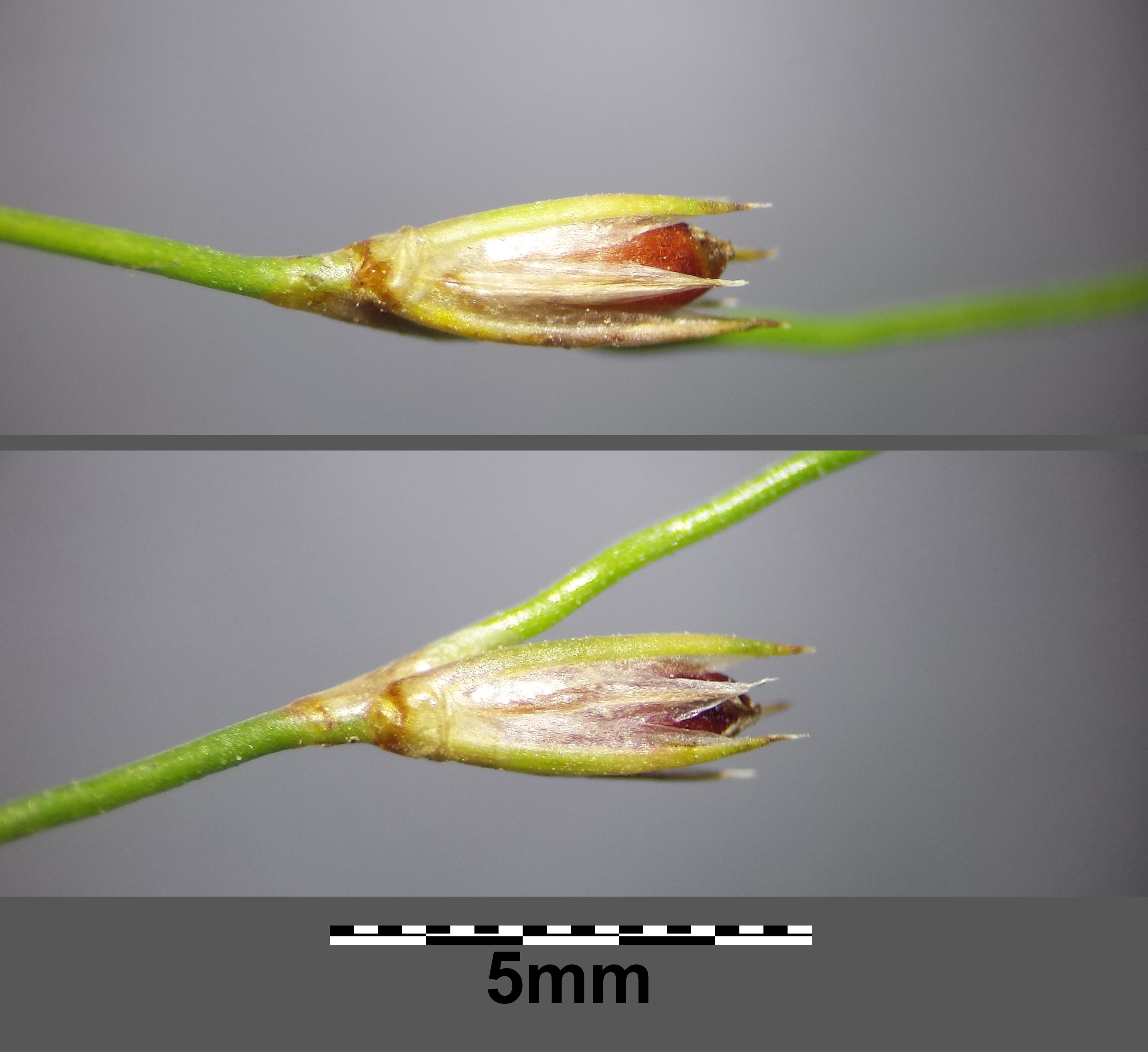 Fruit Taxonym: Juncus bufonius ss Fischer et al. EfÖLS 2008 ISBN 978-3-85474-187-9 Location: near Komau, district Freistadt, Upper Austria - ca. 875 m a.s.l. Habitat: wet way